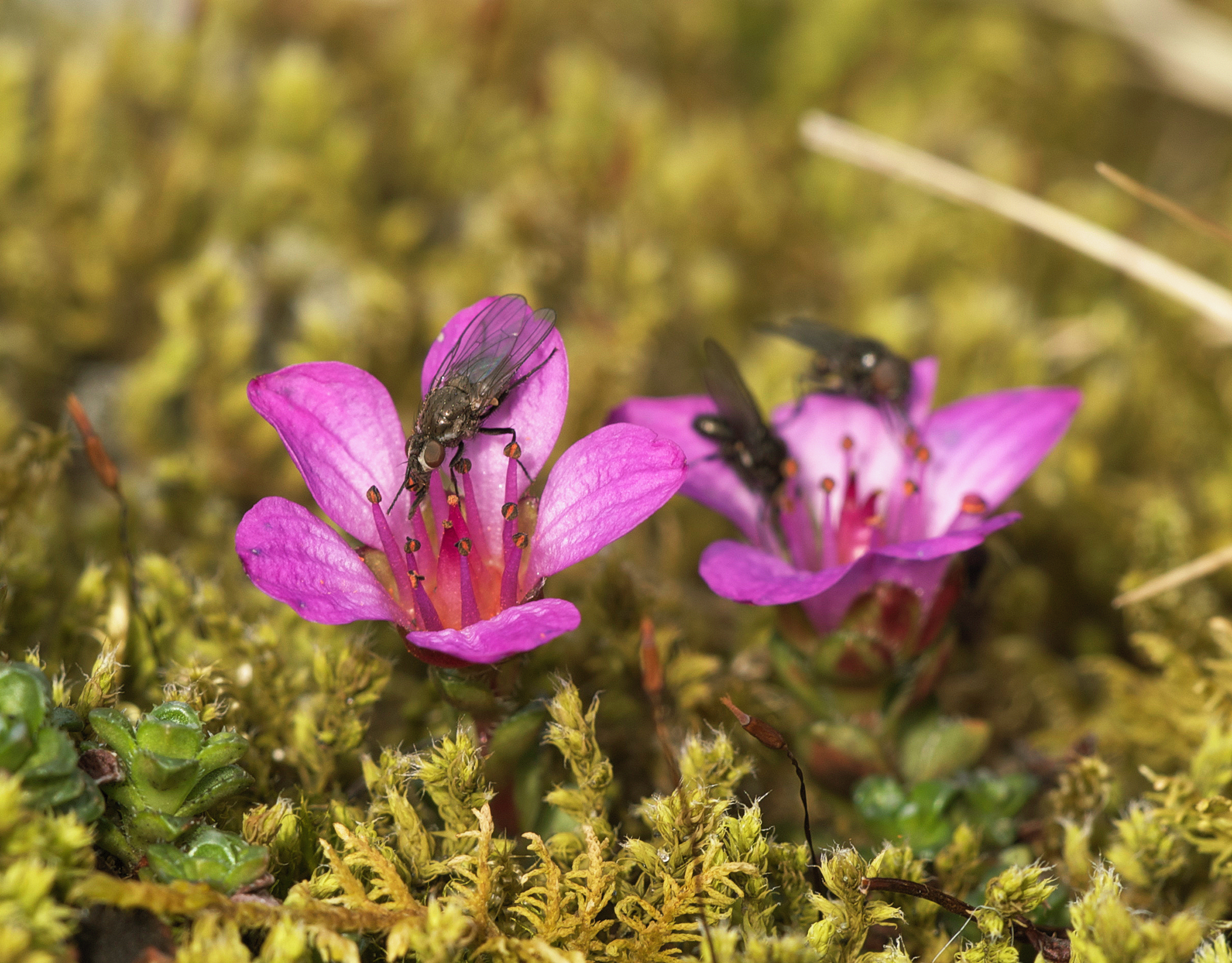 Purple saxifrage (Saxifraga oppositifolia), Moskenesøy, Norway